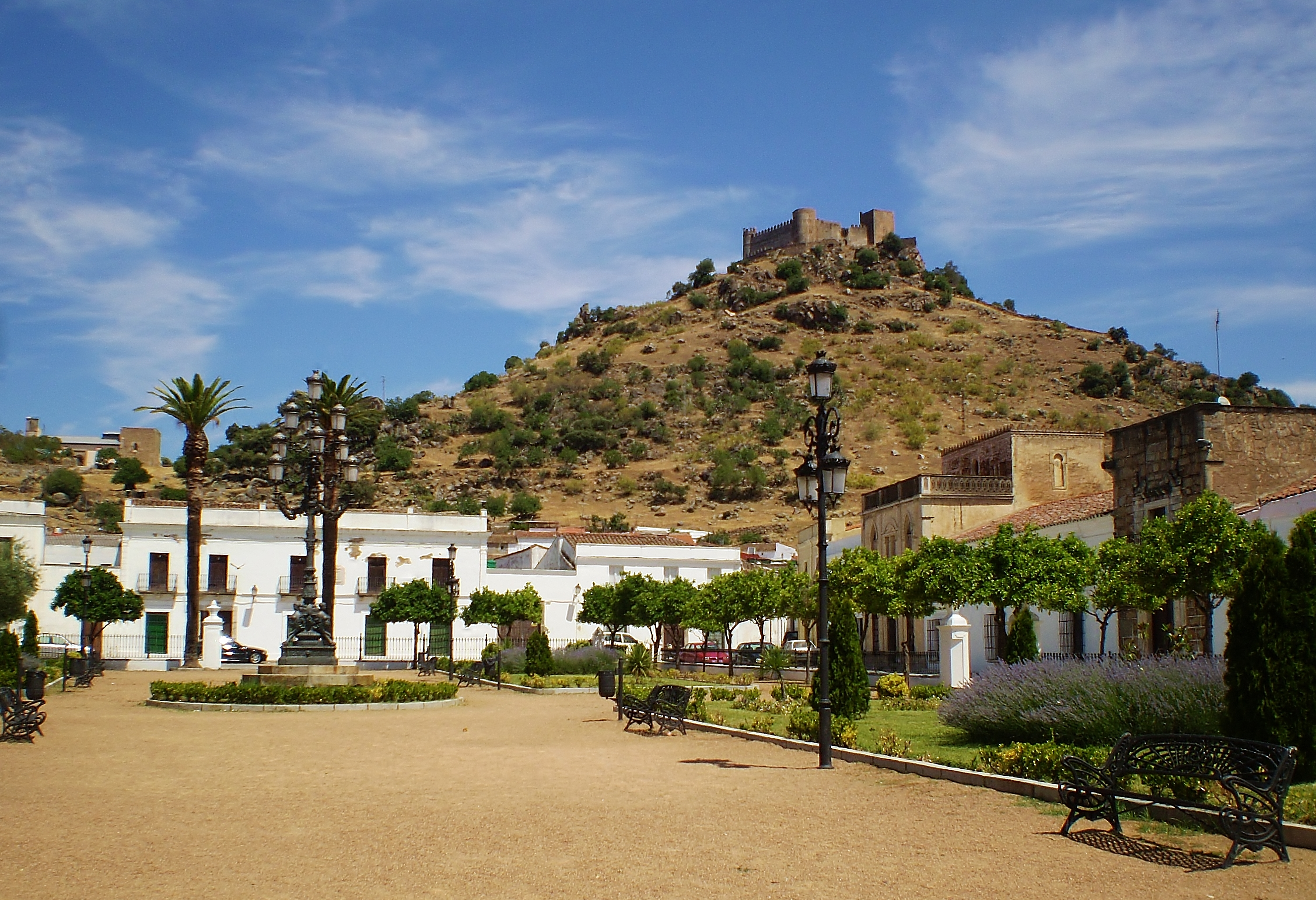 Fuente llana square